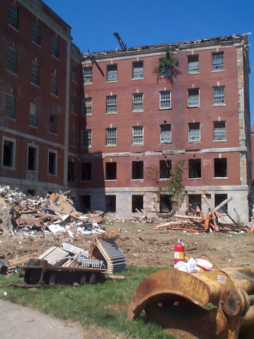 Demolition showcasing the front of the Broadview Developmental Center.